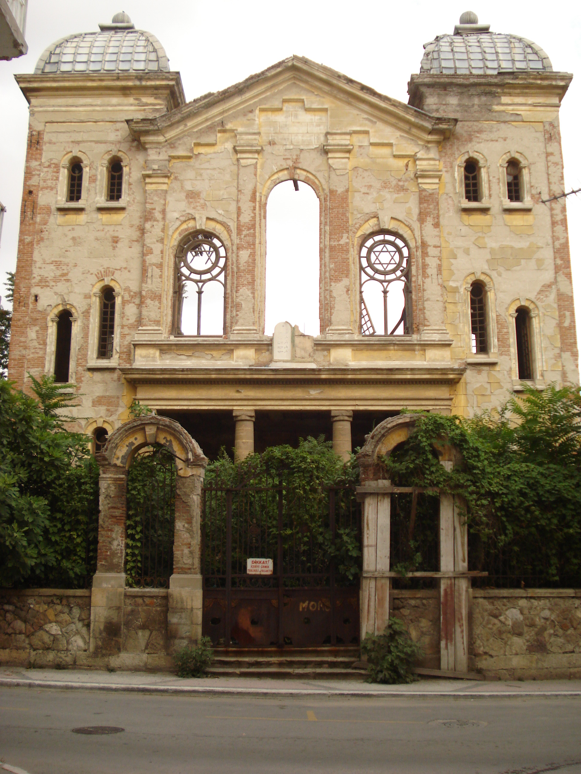 Edirne Buyuk Sinagogu in Edirne, Turkey.